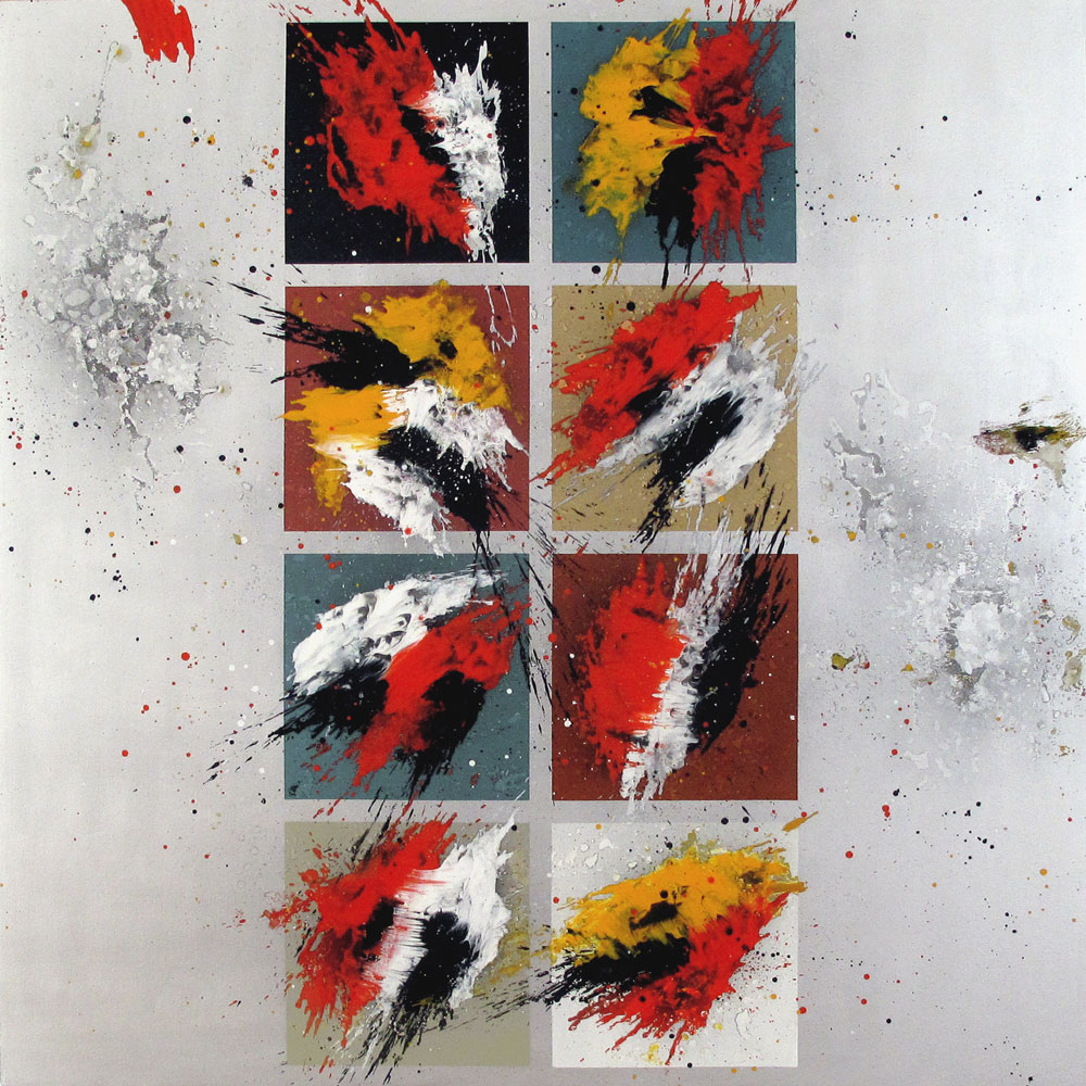 Painting of Carole. Abstract memory series. 2010. Oil on canvas. 79" x 79"